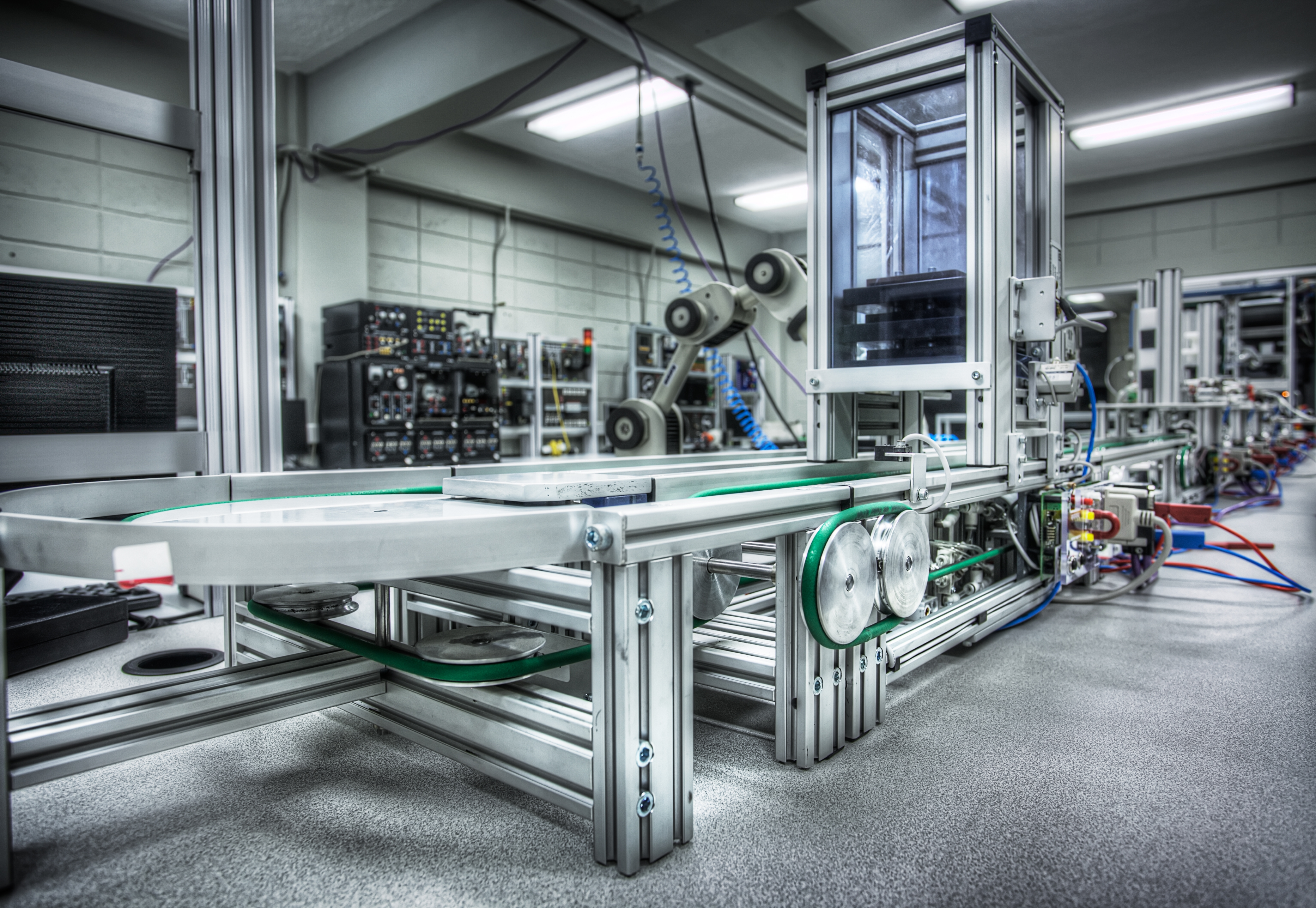 Laboratorio de Mecatrónica Campus San Pedro SUla